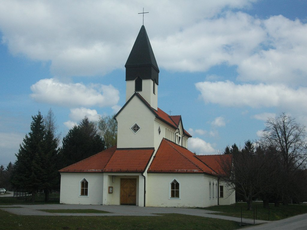 Rovensko, church